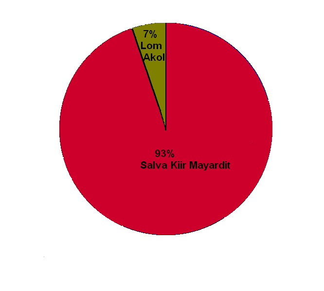 South Sudan presidential election results, 2010.